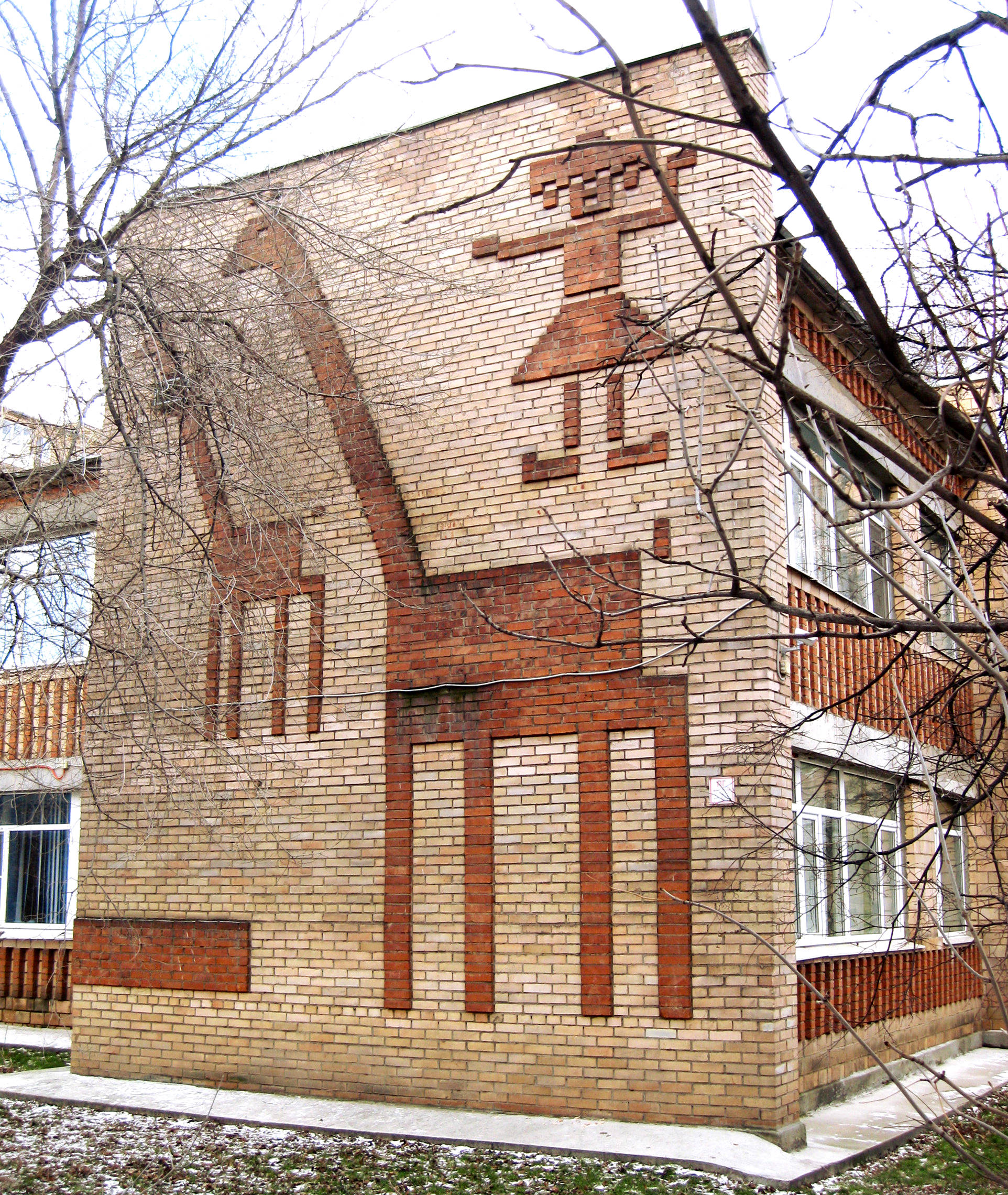 Kindergarten Literary Fund of the USSR (Moscow, Krasnoarmeyskaya ul., D. 23-A). Built in the early 1960s, near the houses of the cooperative "Soviet Writer".